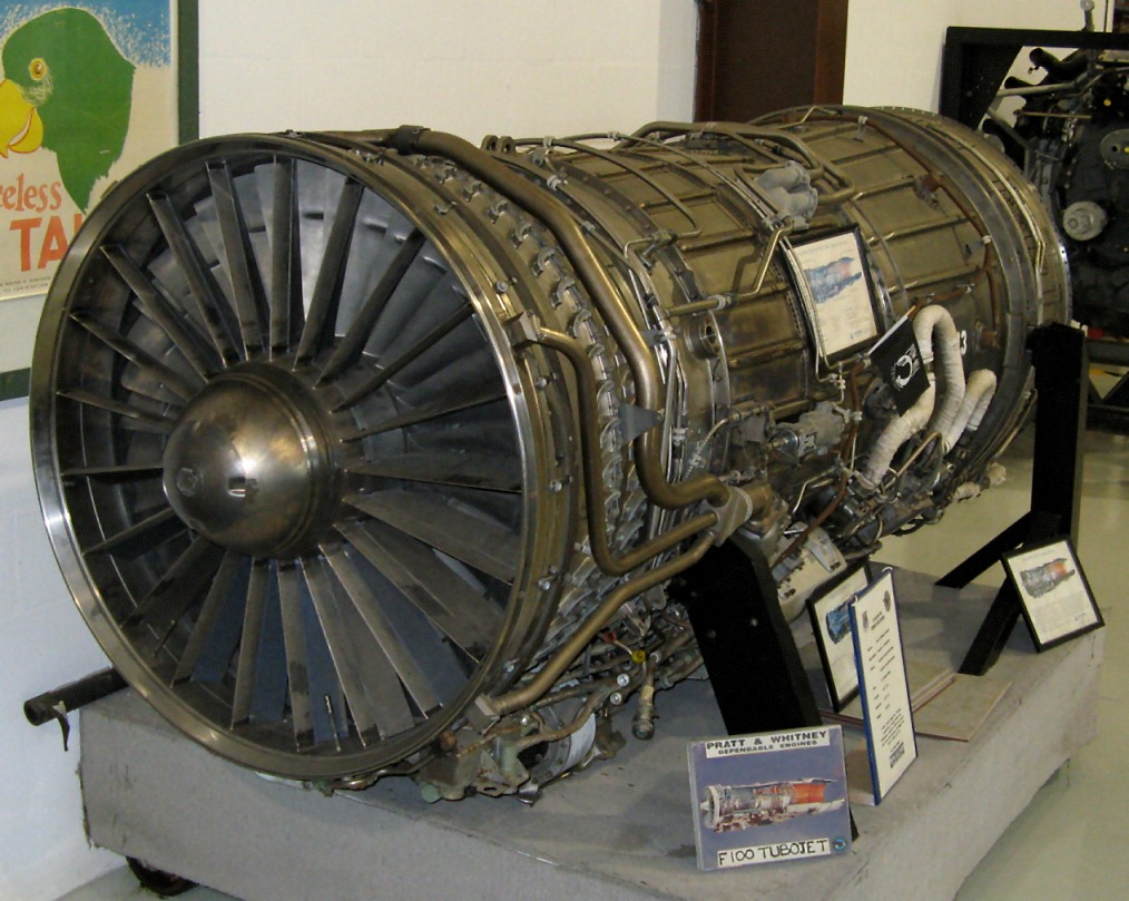 Pratt & Whitney F100 bypass turbojet, Valiant Air Museum, Titusville, Florida